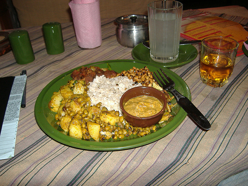 It is a newari cusine where beaten rice is served along with different varieties of beans, spinach, potato, chwela and traditional liquor Thwon